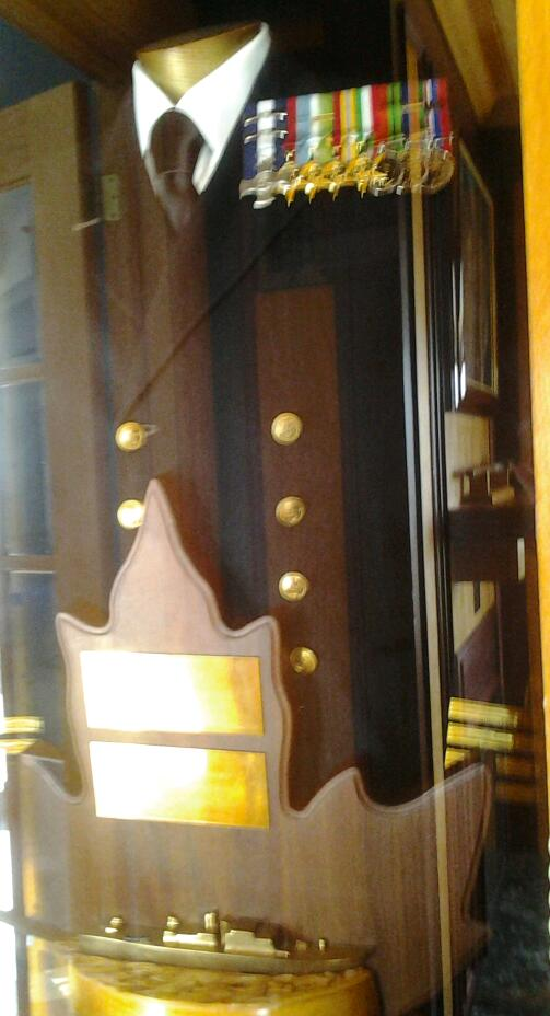 Britannia Yacht Club Thomas G Fuller Trophy awarded annually to the naval reserve achieving the topmost state of combat readiness. Captain Thomas G Fuller served as Commodore to the Britannia Yacht Club, Ottawa, Ontario. The Fuller trophy, uniform and sword are stored in a display cabinet in the Commodore's boardroom at Britannia Yacht Club.